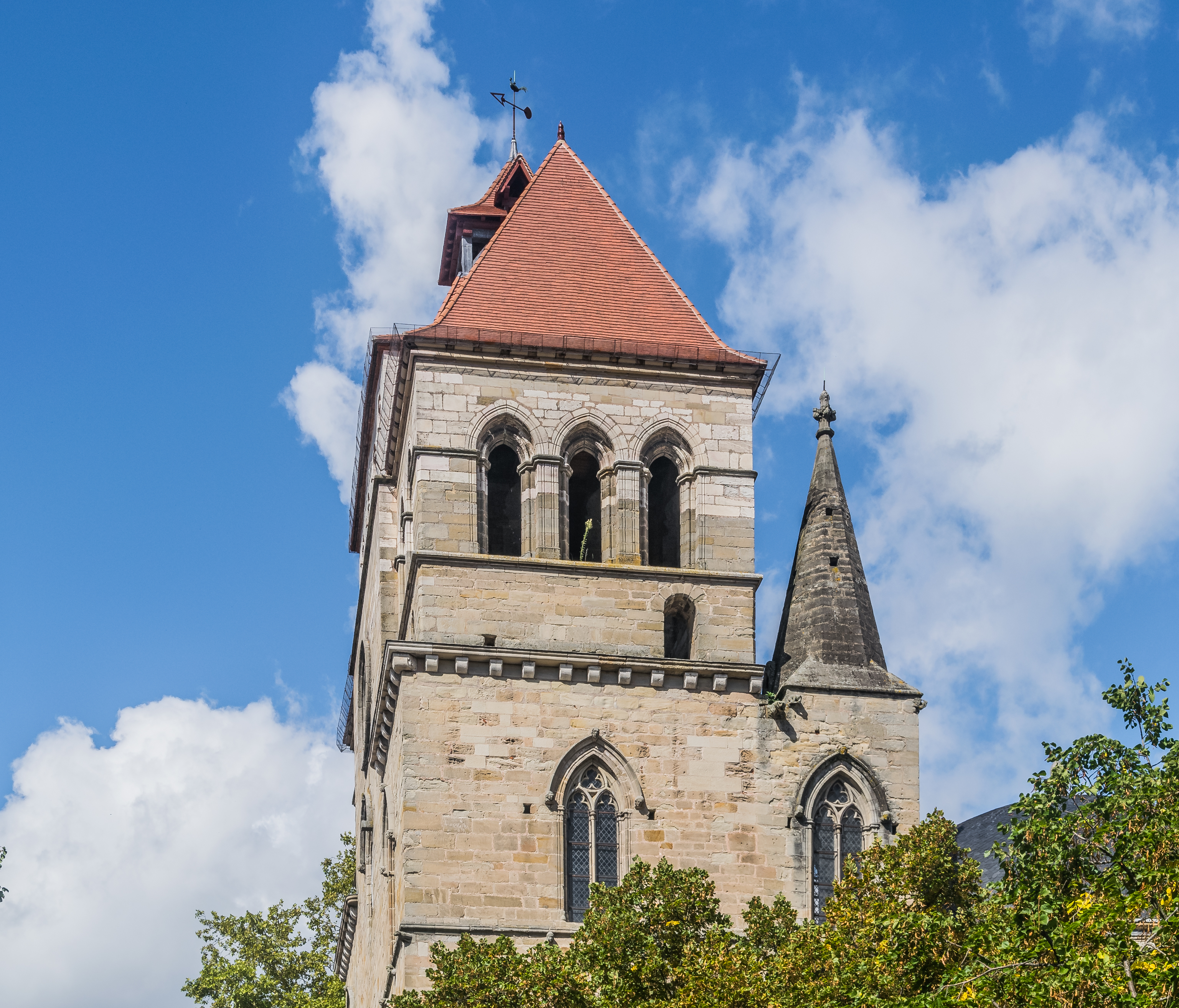 Bell tower of the Saint Stephen Cathedral of Cahors, Lot, France It is indexed in the Base Mérimée, a database of architectural heritage maintained by the French Ministry of Culture, under the references IA46000008 and PA00094997 . This place is a UNESCO World Heritage Site, listed as Chemins de Saint-Jacques-de-Compostelle en France.